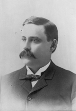 John Patton Jr. Source: Biographical Directory of the U.S. Congress